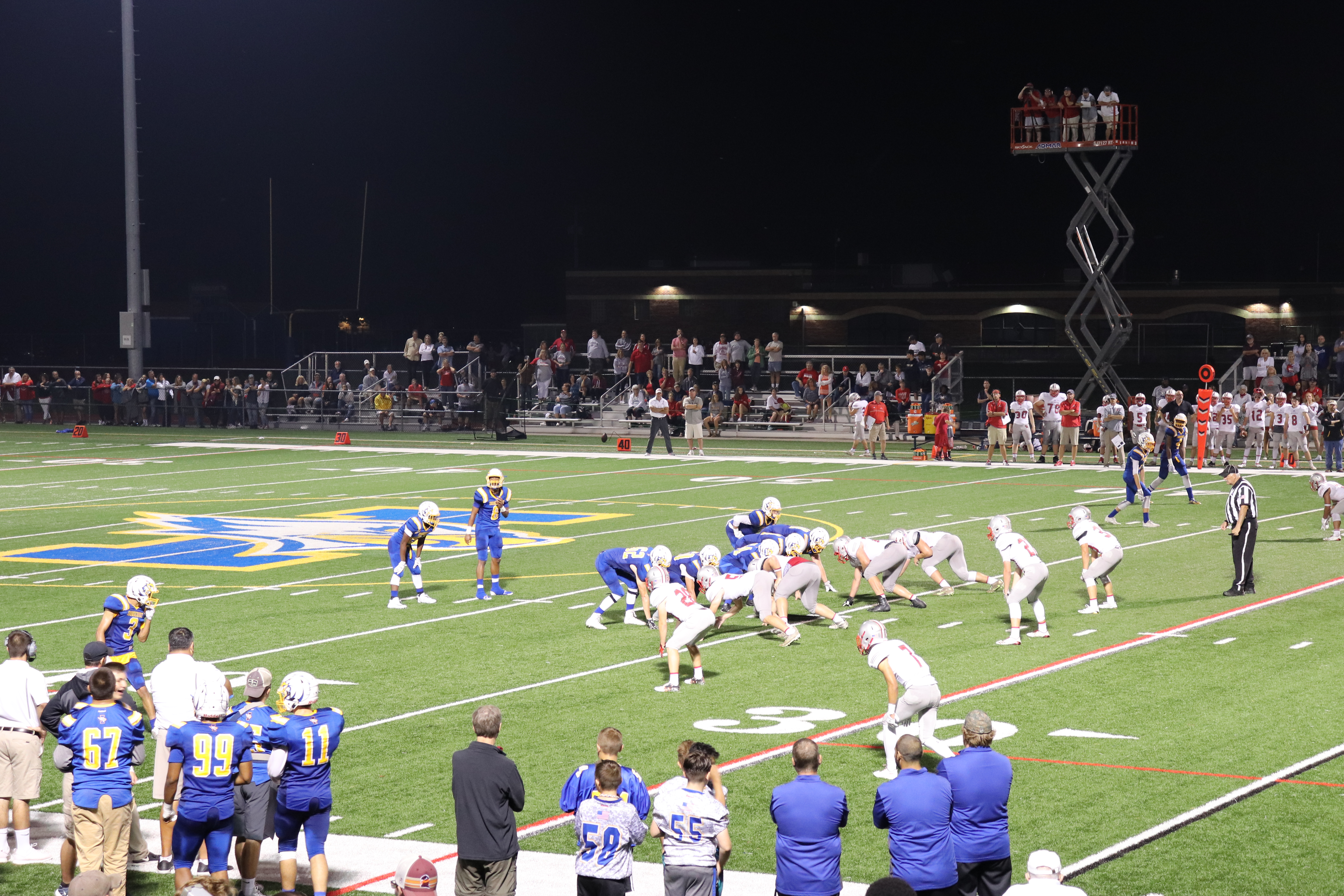 The Irondequoit High School Eagles face off against the Canandaigua Academy Braves at Irondequoit High School Stadium